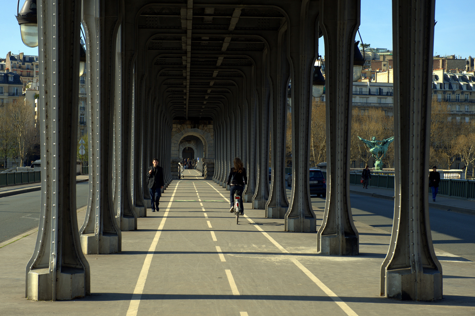 The pont de Bir-Hakeim, formerly the pont de Passy, is a bridge that crosses the Seine River in Paris, France. It connects the city's 15th and 16th arrondissements, and passes through the île aux Cygnes.